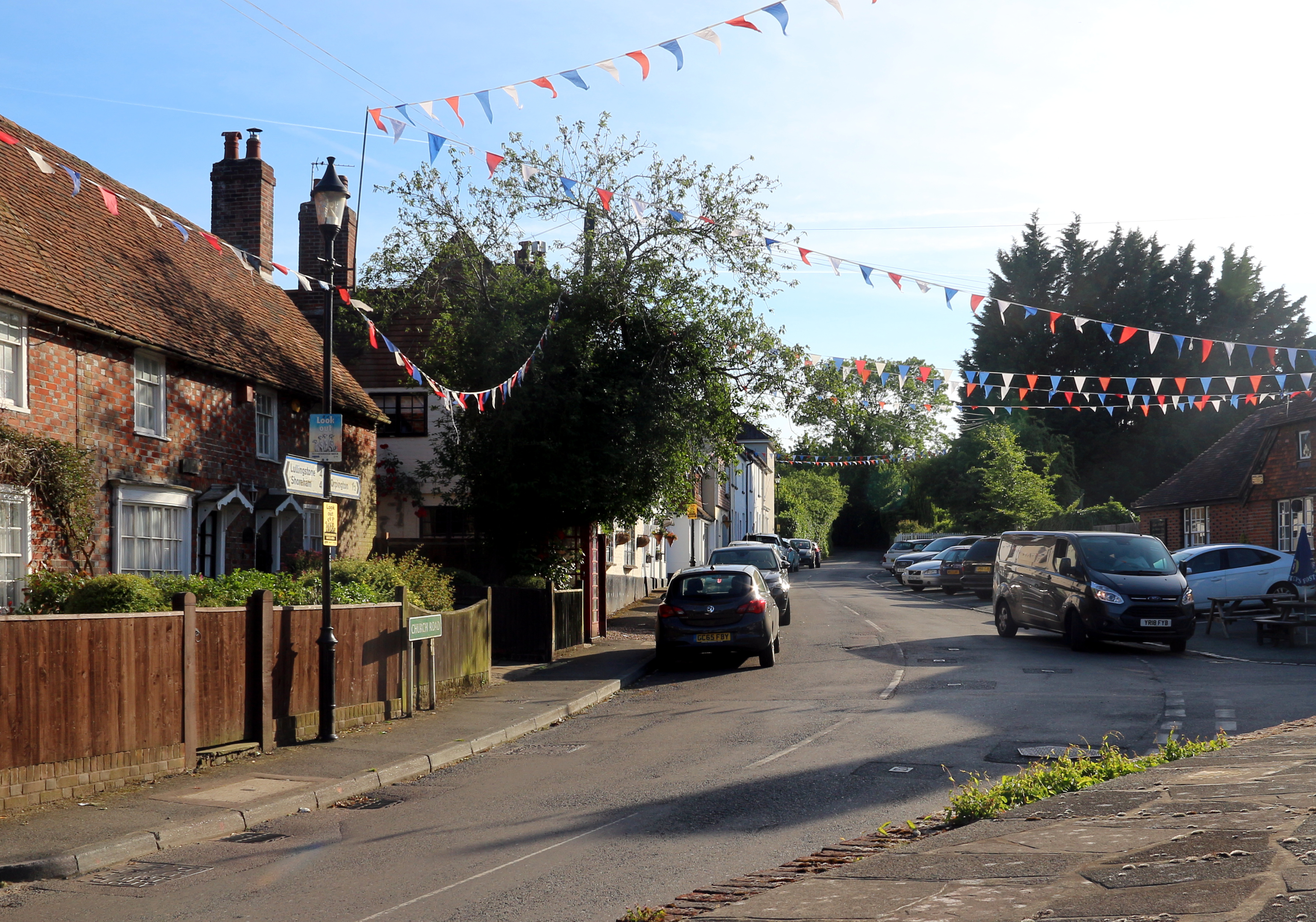 View of the village of Chelsfield in the London Borough of Bromley.